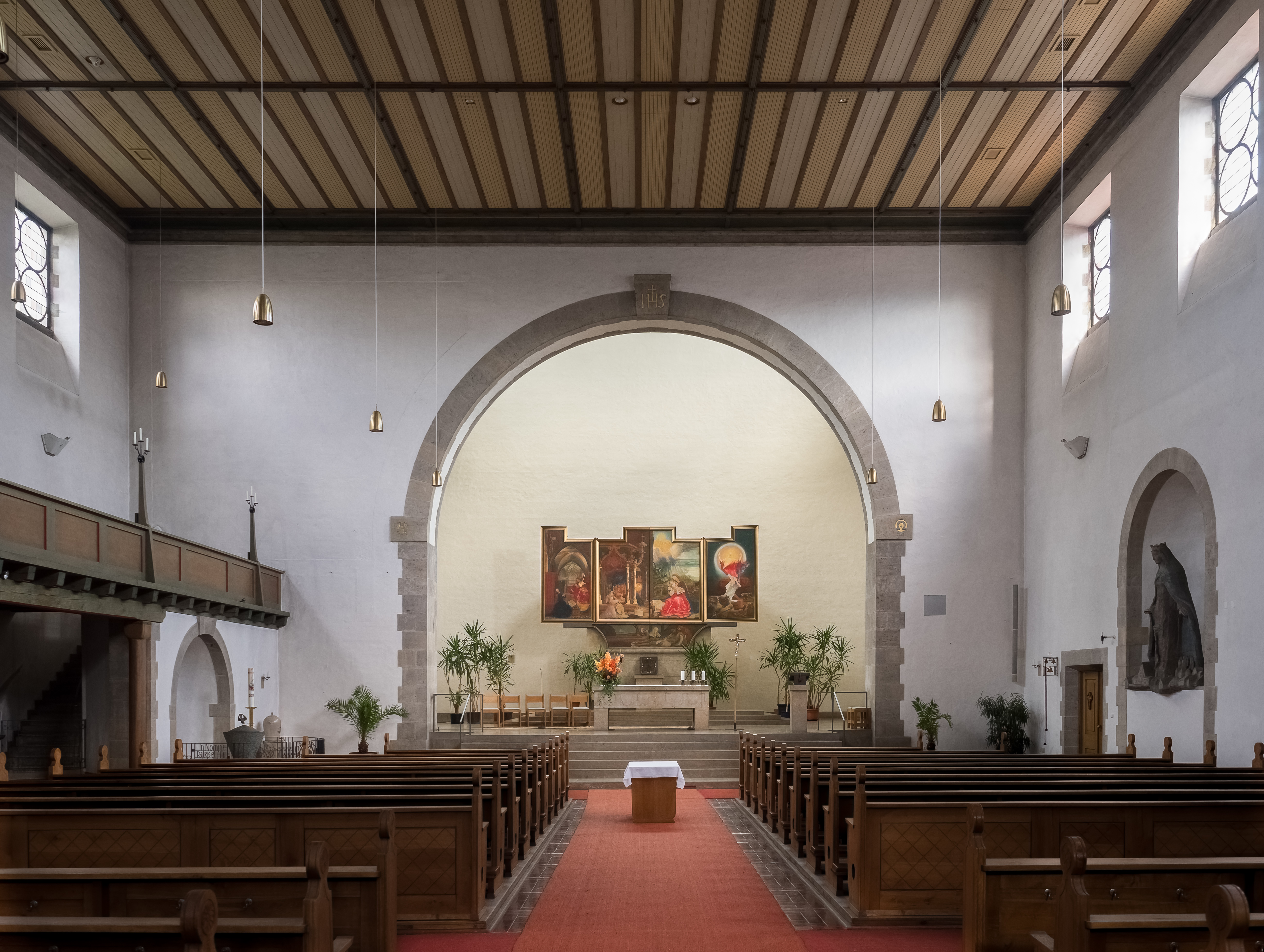 Catholic parish church St. Kunigung in Bamberg - Gartenstadt